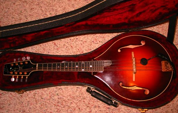 Flatiron A5 Artist model mandolin, made by the Gibson Company in the Nashville, TN factory. A fairly good mandolin. It cost $1700 US. Spruce top, flamed maple back, neck, and sides. Ebony fingerboard. The pickup under the bridge is a MacIntyre mandolin piezo.